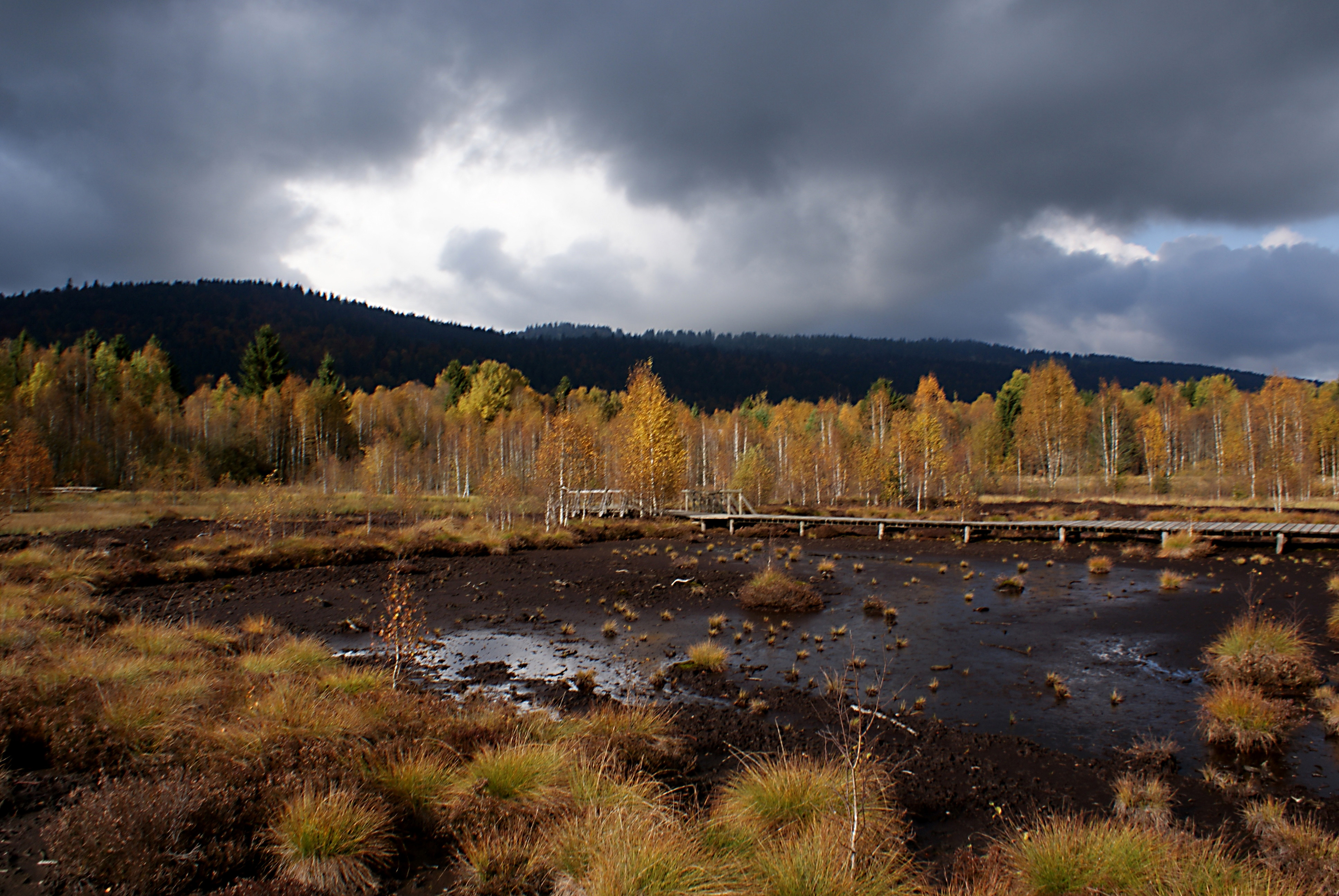 The bog of the Ponts-de-Martel, in Switzerland